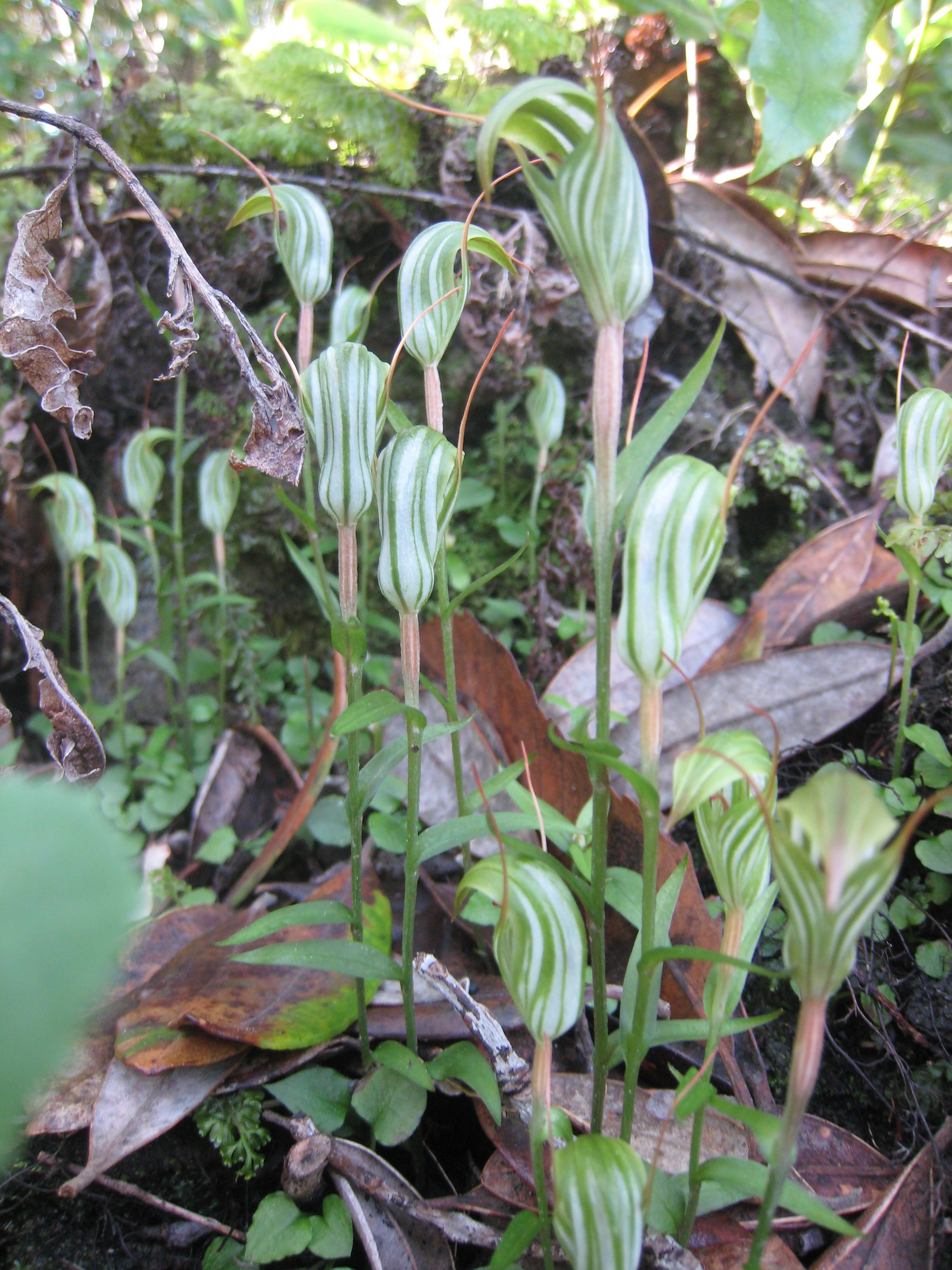 Orchids growing on Rangitoto Island, New Zealand, near the lava caves. I presume they are some sort of greenhood (Pterostylis).